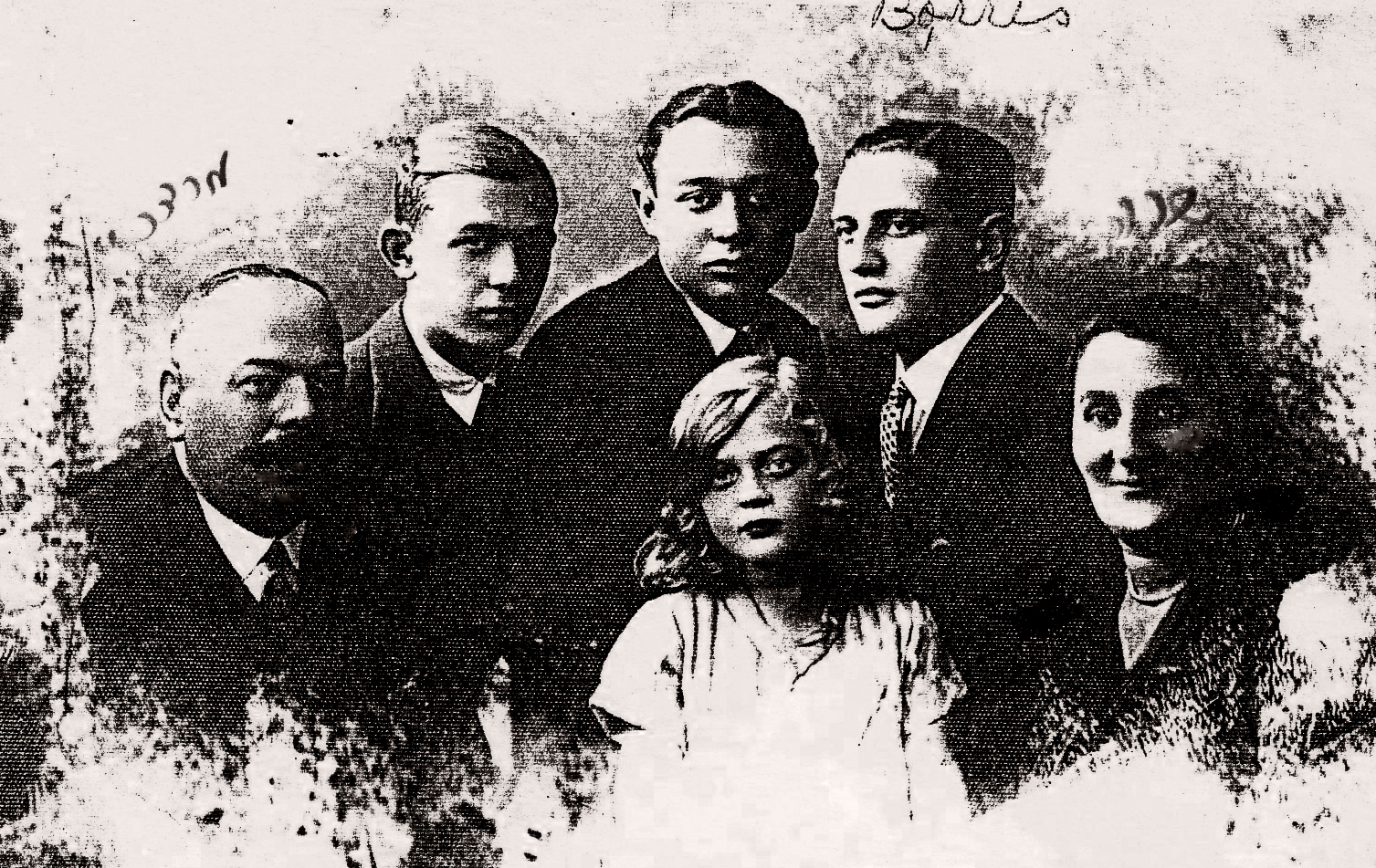 Warsaw publisher Mordechai Kaplan with his family